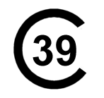 Ten sail badge or logo for the Cal 39 sailboat